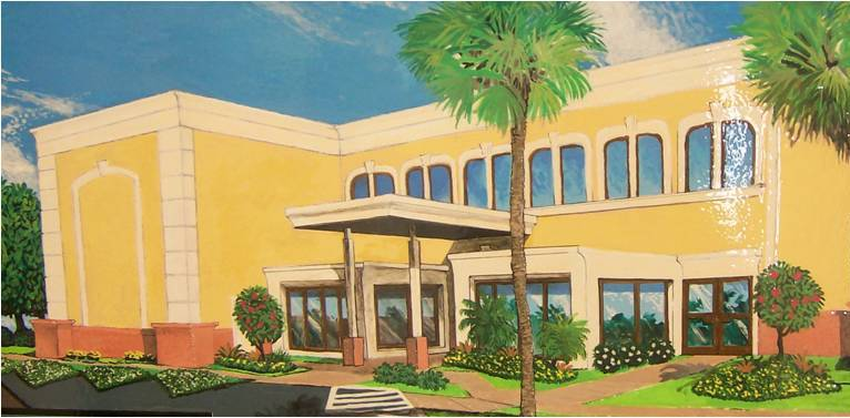 Rendering of Executive National Bank's renovated headquarters.